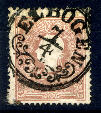 10 kreuzer Issue II Elbogen